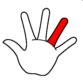 Black and white outline of left hand